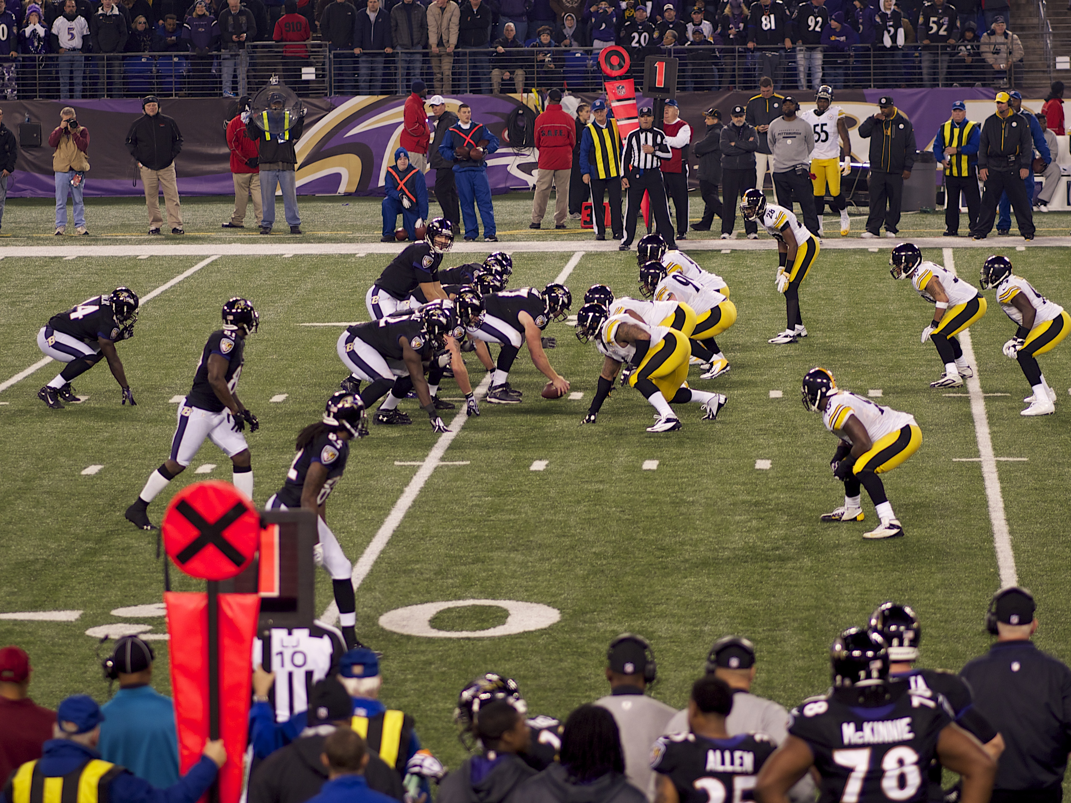 Baltimore Ravens quarterback Joe Flacco under center in the Dec. 2, 2012 game vs Pittsburgh Steelers.